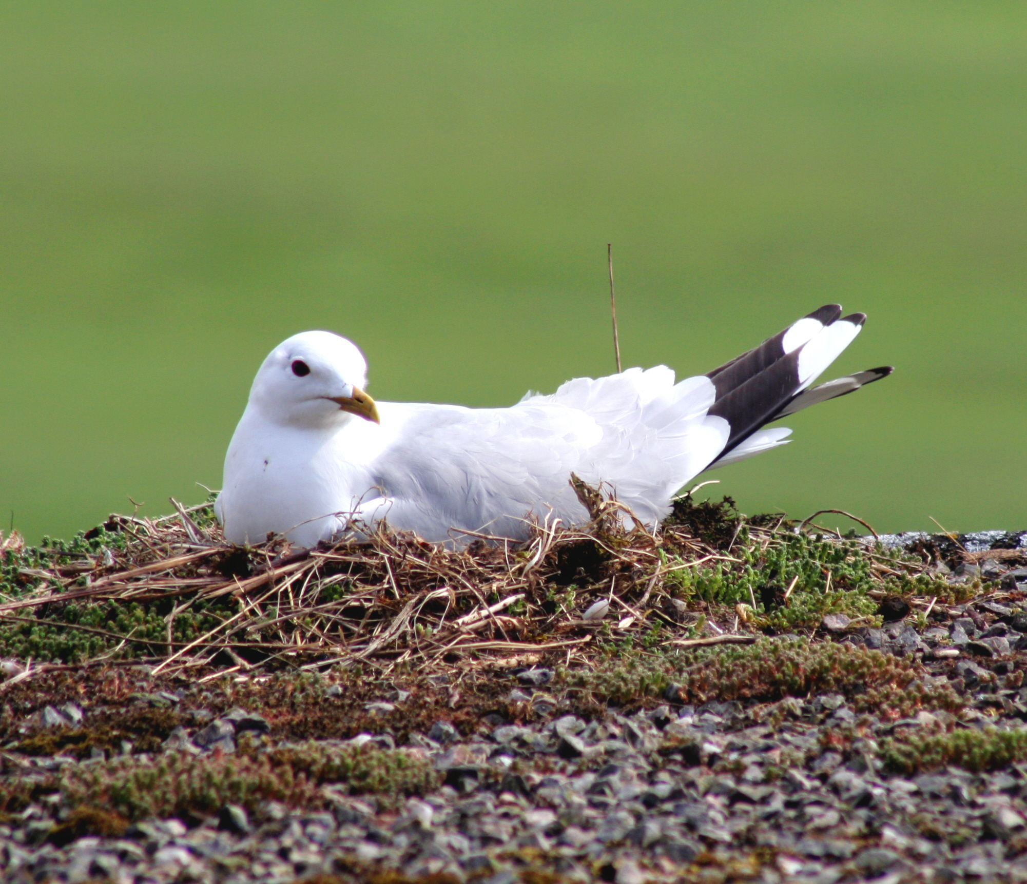 Another gull nesting on the roof of the Royal Golf Hotel in Dornoch